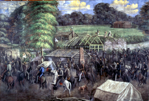 "Haun's Mill" by C.C.A. Christensen, a depiction of the Haun's Mill massacre.